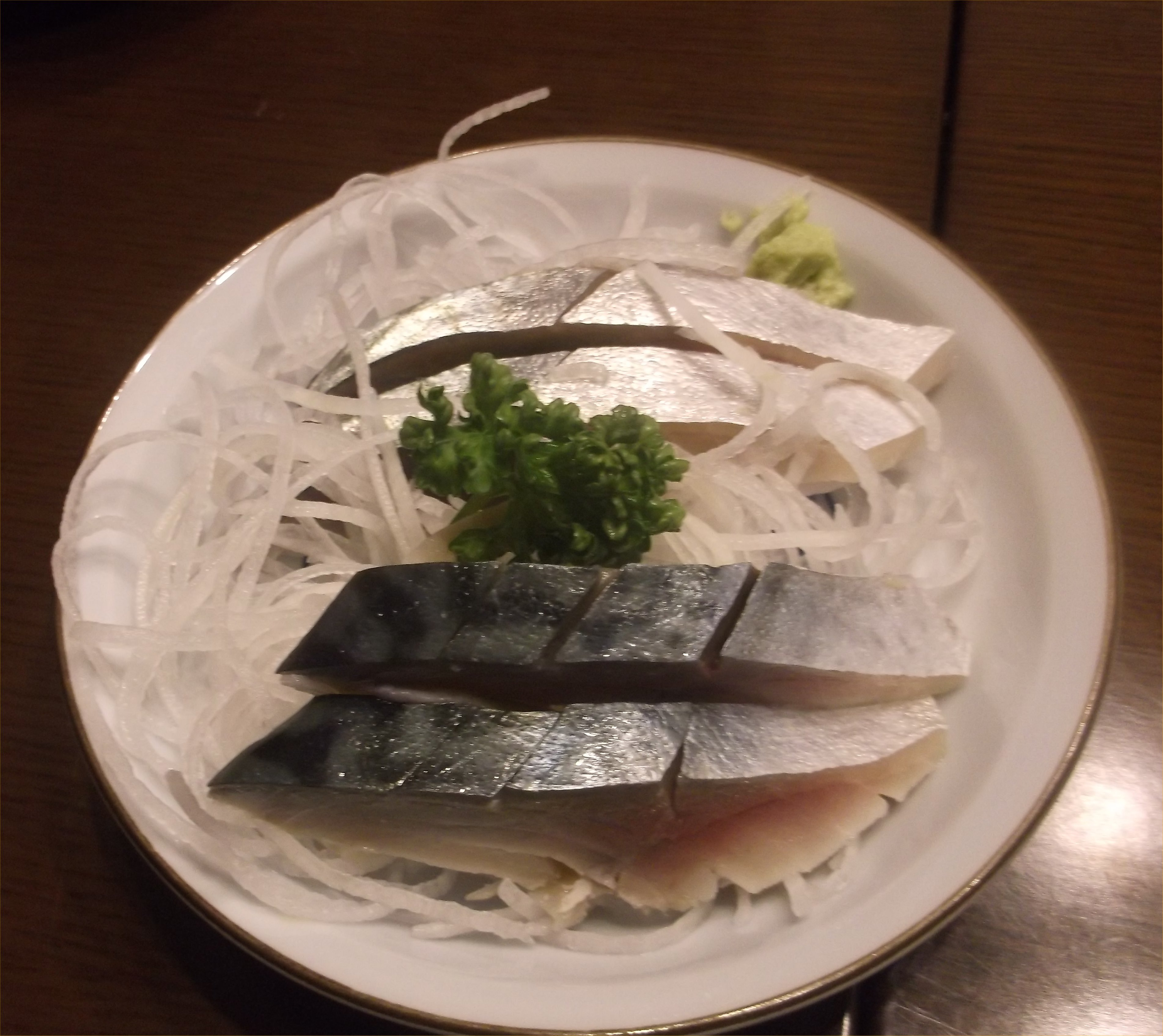 A photo of sashimi of Japanese "Shimesaba"(vinegared mackerel)